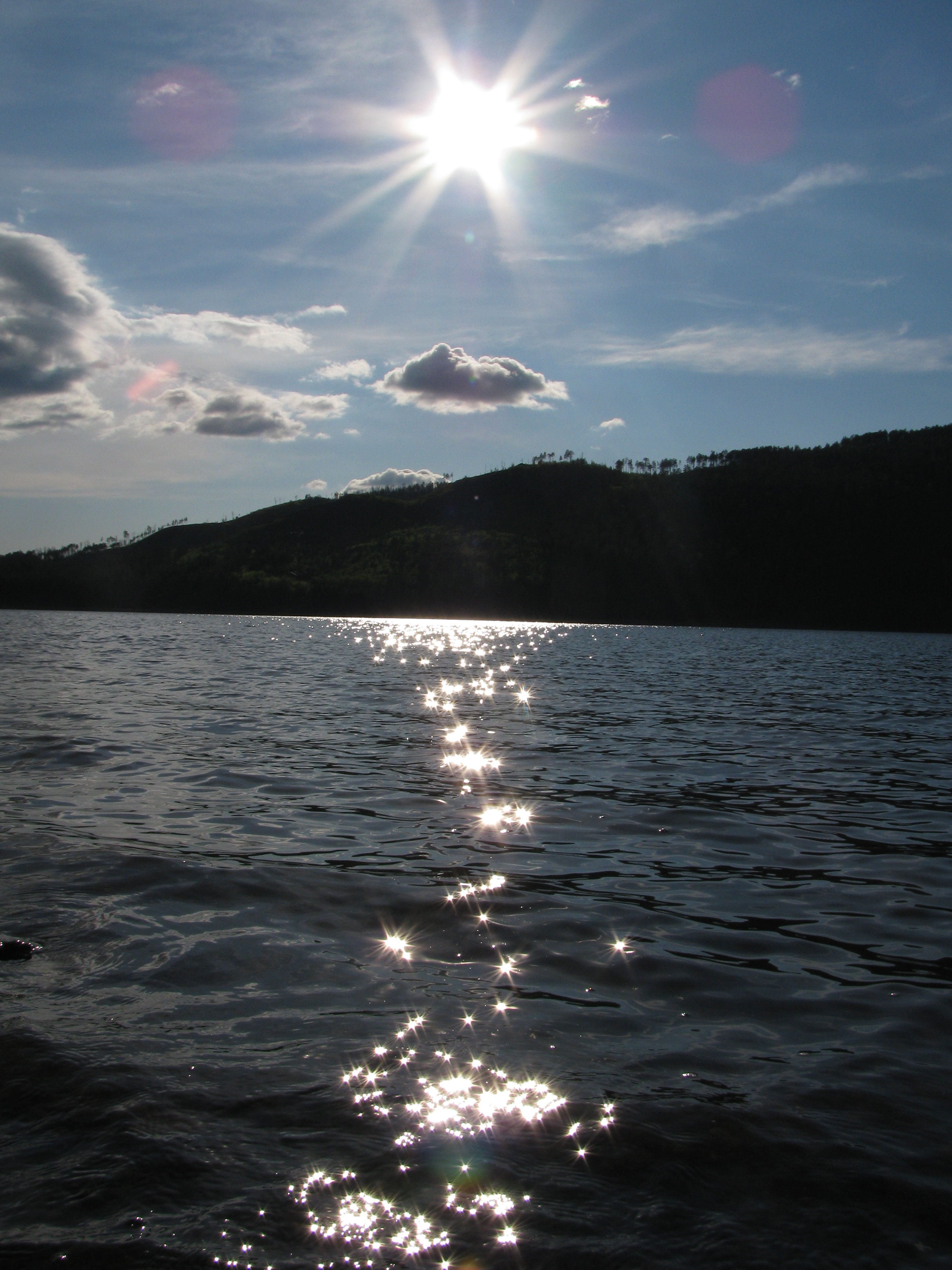 Angara River in Boguchansky District, Krasnoyarsk Krai, Russia